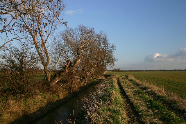 Grunty Fen A footpath runs alongside this stream, a catchwater drain, south of Wentworth.